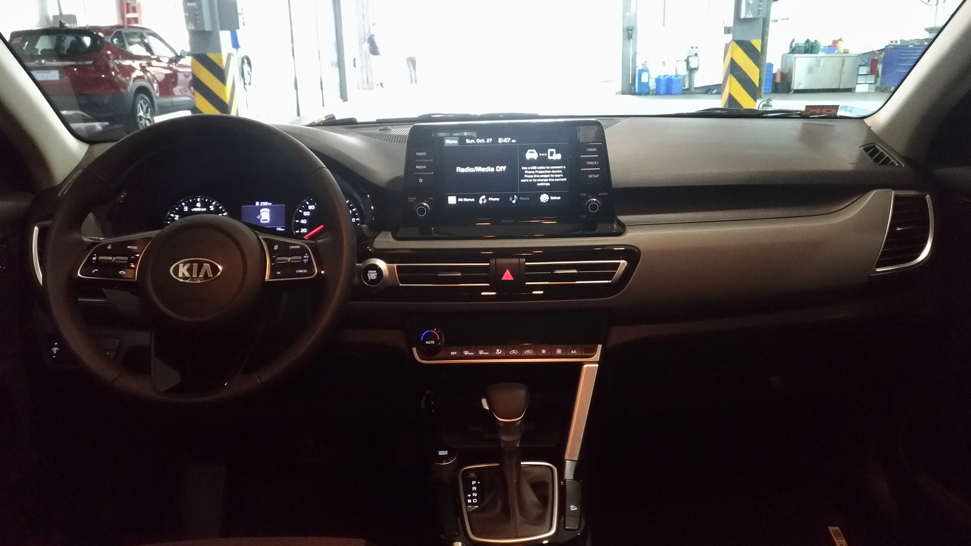 2020 Kia Seltos SX. Photographed at Volkswagen Global City, Bonifacio Global City, Taguig, Philippines.